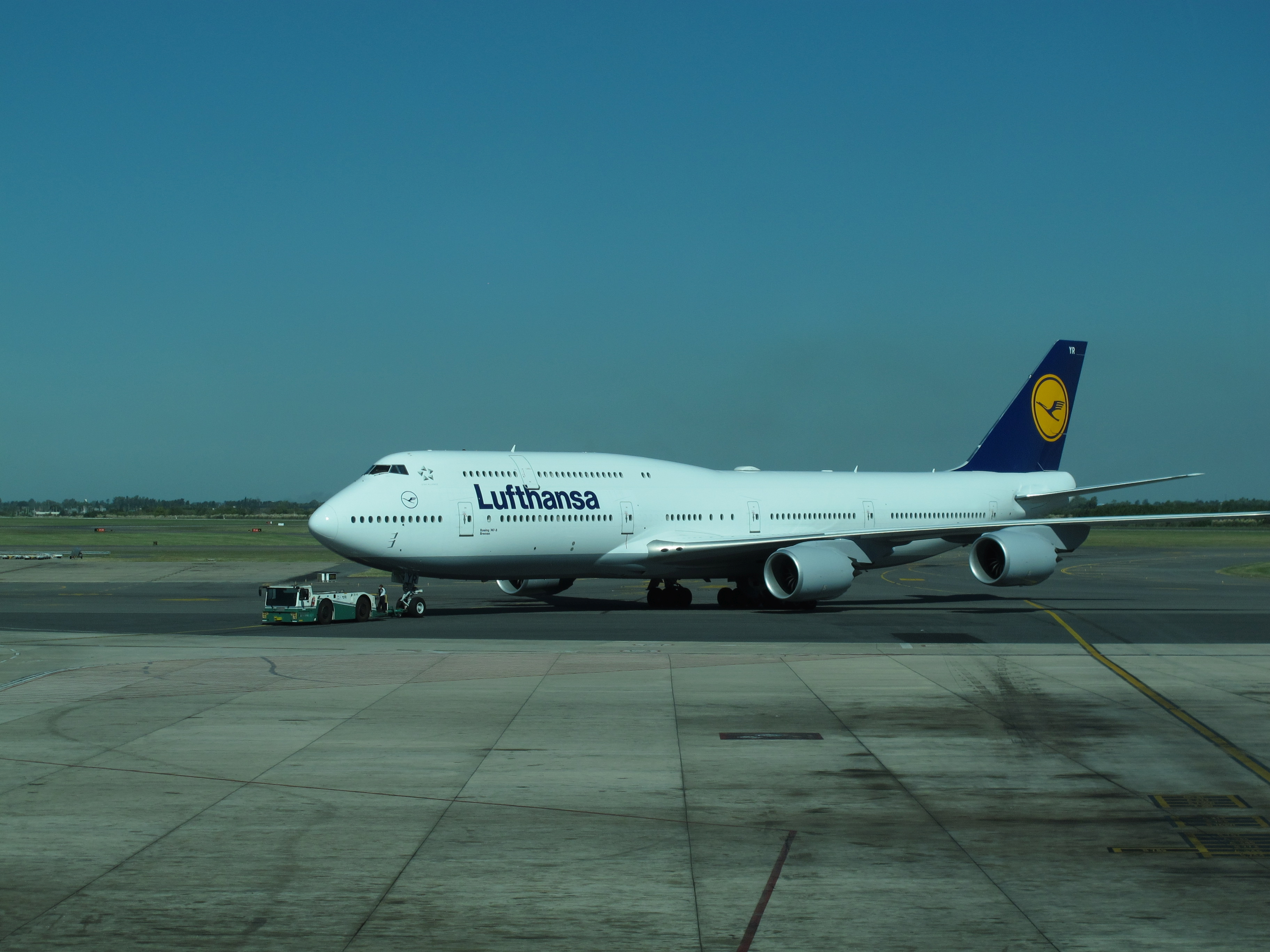 Lufthansa Boeing 747 (D-ABYR) at the Buenos Aires-Ezeiza Ministro Pistarini International Airport (EZE/SAEZ)